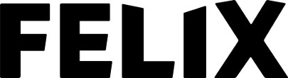 Logo of Felix newspaper, Imperial College London